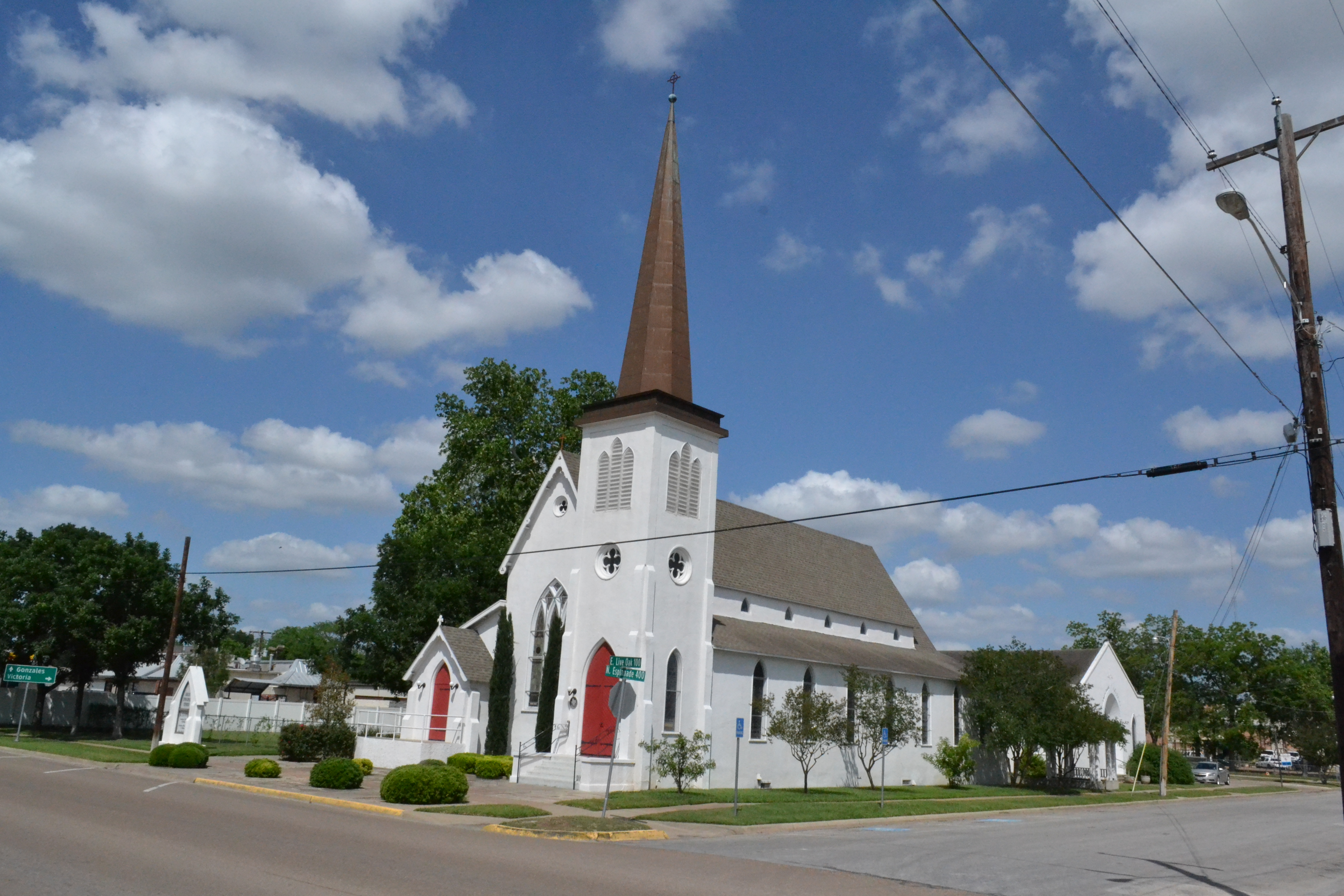 The Grace Episcopal Church in Cuero, Texas. Listed on the National Register of Historic Places.